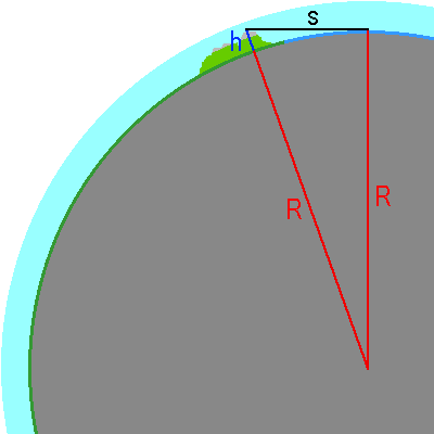 Diagramm demonstrating the calculation of the limitation of visual range by curvature of earth.